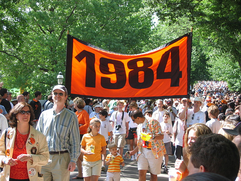 Class of 1984 at the 2004 p-rade.